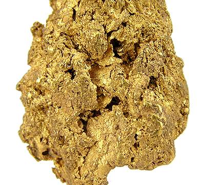 Gold Locality: Serra Pelada (Serra Leste) Au-(Pd-Pt) deposit, Curionópolis, Carajás mineral province, Pará, North Region, Brazil (Locality at ) Size: miniature, 4.3 x 2.3 x 1.2 cm (39 grams) Gold A large and important nugget for the locality! Gold nuggets from Brazil are quite hard to obtain. This one shows minute crysatllization in the pockets, as well.